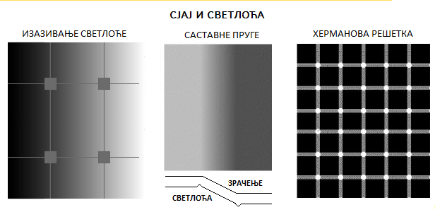 ПРИМЕРИ СВЕТЛОЋЕ